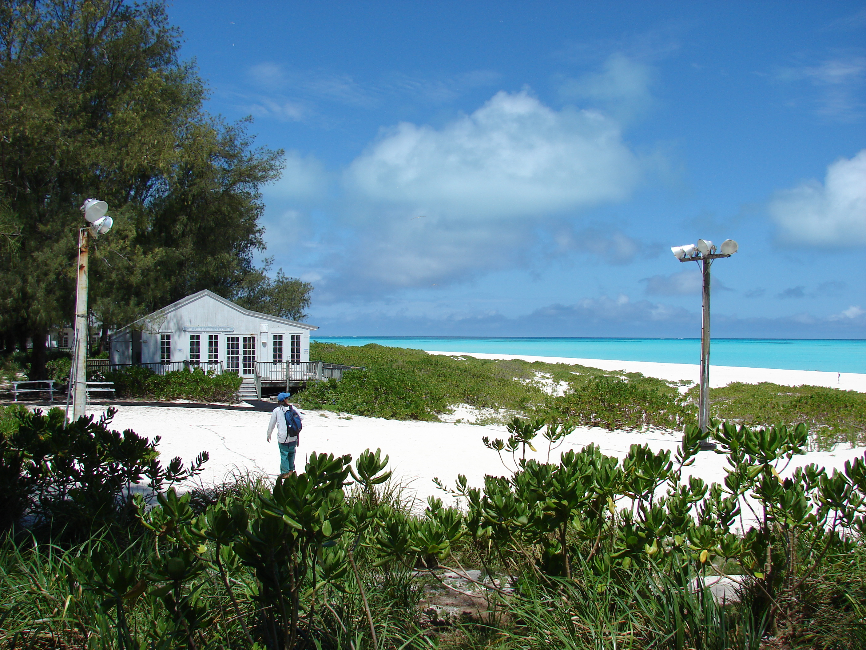 Scaevola taccada (habit with Kim). Location: Midway Atoll, Captain Brooks Sand Island